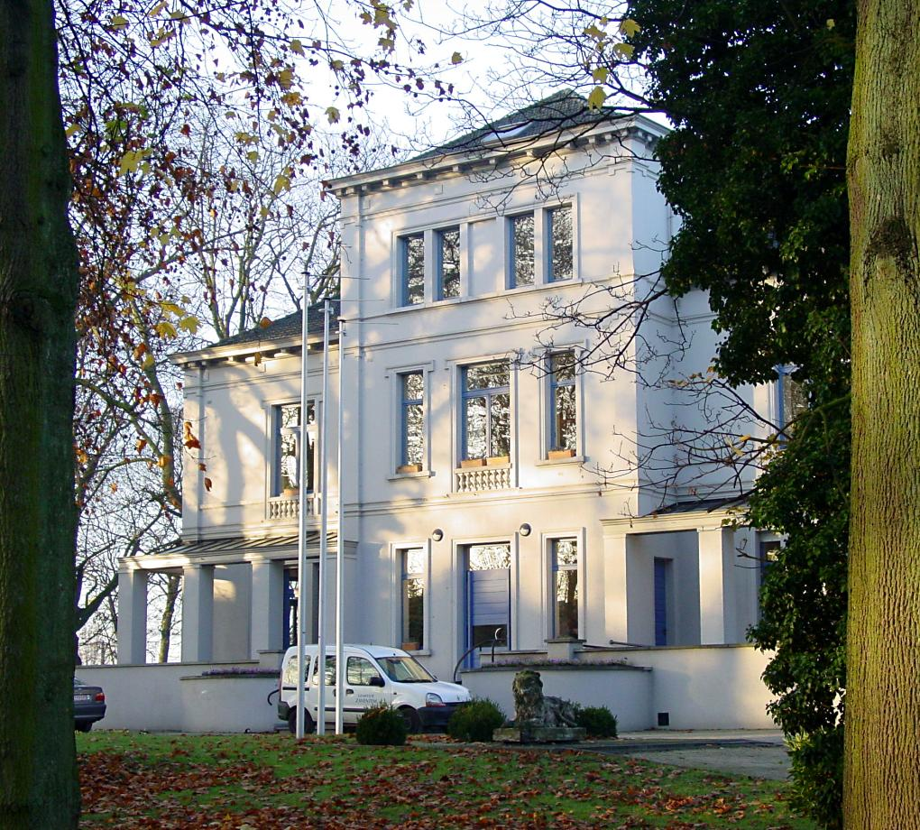 Zaventem Gemeentehuis (town hall). Photograph taken by David Edgar on 30th November 2006.